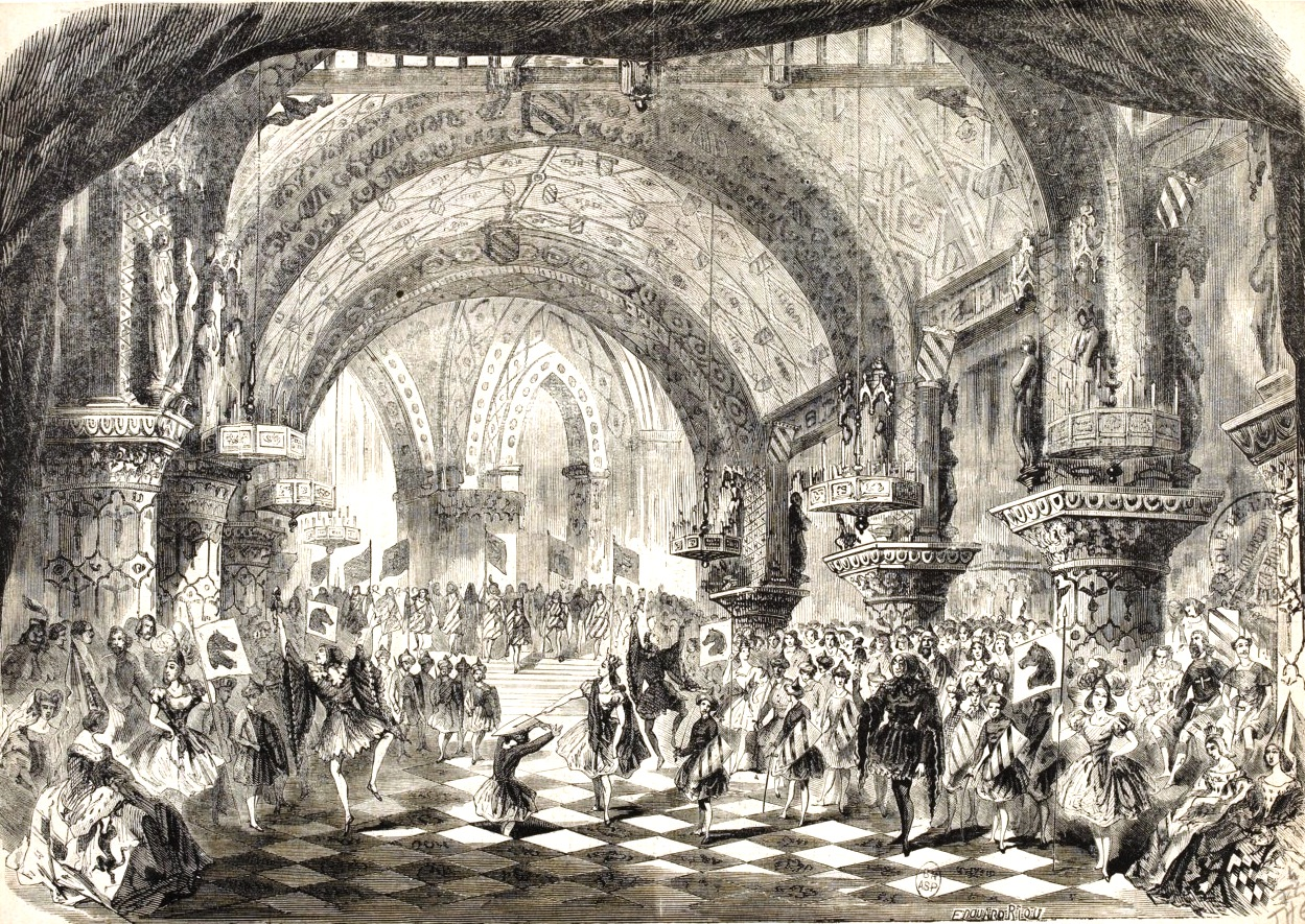 Press illustration of the stage setting for Act 5 of Fromental Halévy's opera La magicienne. The scene depicts a ballet of human chess pieces.